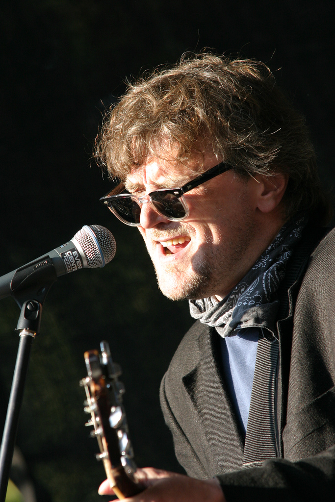 Estonian singer and guitarist Riho Sibul, performing live